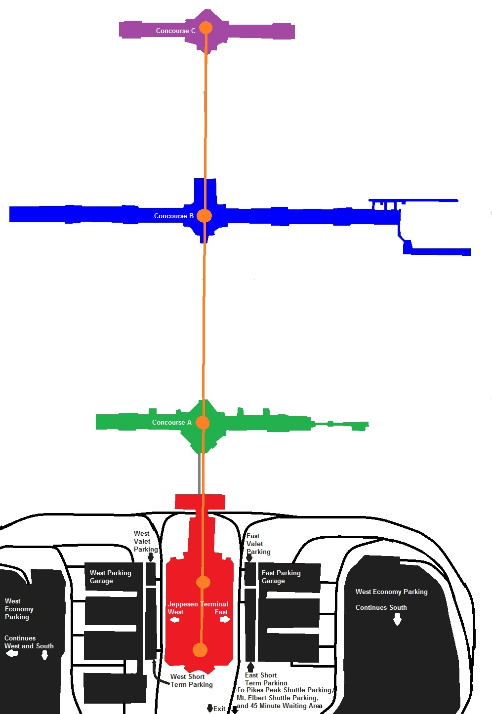 A terminal map of Denver Airport. Created by me with help from Google Earth and the Denver Airport terminal map